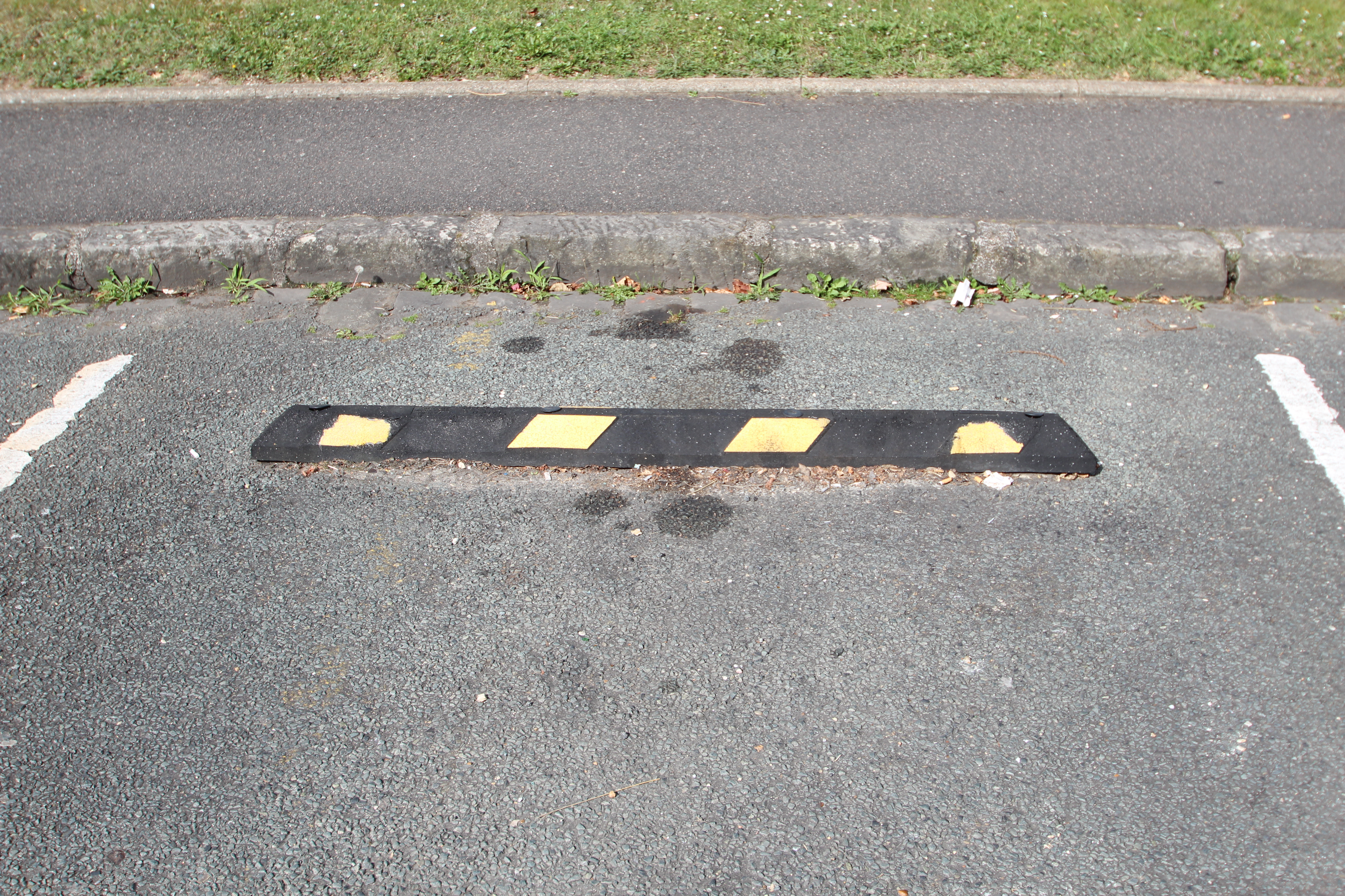 Aristide Briand square in Limours, France. Object location48° 38′ 42.29″ N, 2° 04′ 28.85″ E This picture as been uploaded as part of L'Été des régions Wikipédia.